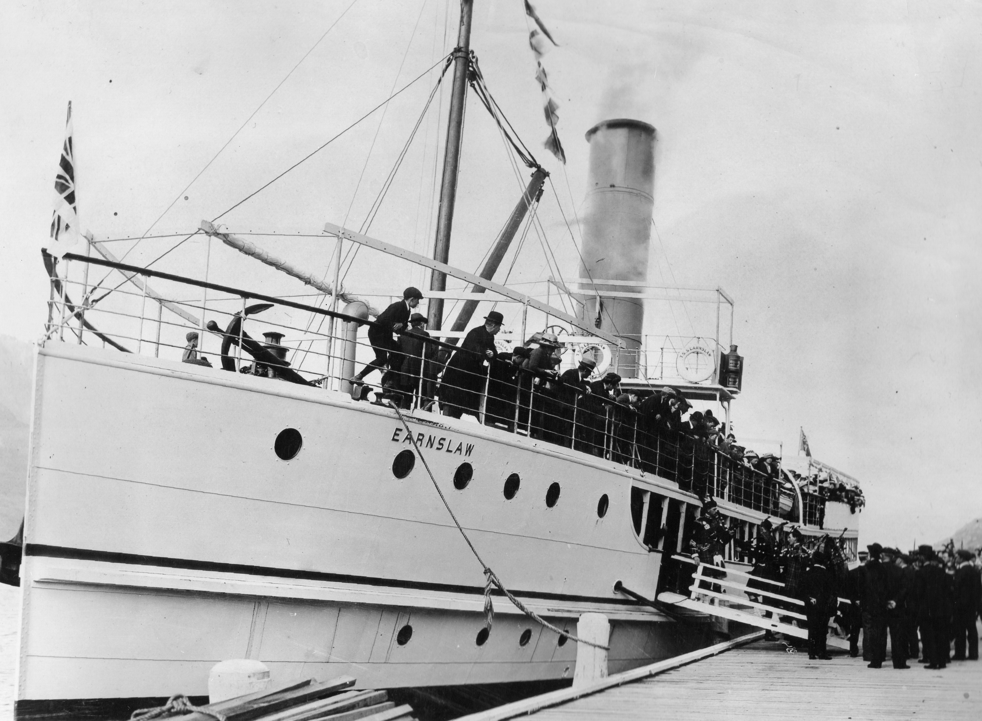 This 1912 image shows the SS Earnslaw after launching. Archives New Zealand Reference: NZ Railways Reference Print E5838, Drawer 33, Wellington Register Room